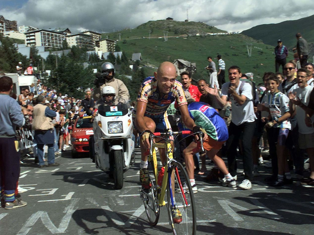 Picture of Marco Pantani on the way to Alpe d'Huez 1997